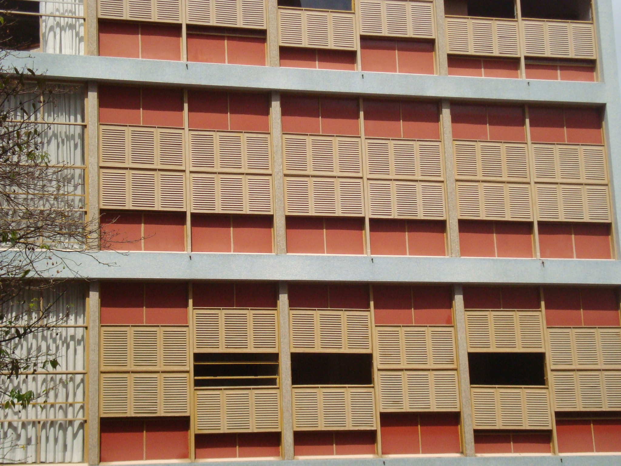 Janelas do Edifício Louveira.